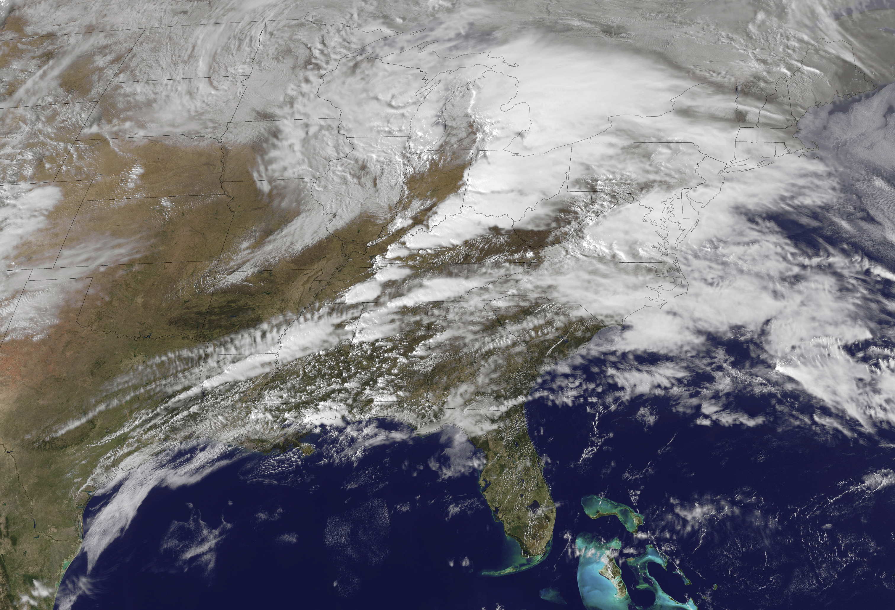 Severe thunderstorms and tornadoes swept across the Midwest and Appalachians on March 2, 2012. According to CNN, at least 36 people were killed, with the majority of the victims in Indiana and Kentucky. On the Weather Underground blog, meteorologist Jeff Masters described the outbreak as a result of warm, wet air from the Gulf of Mexico mixing with cold, dry air aloft. This animation is a combination of thermal infrared (heat) and visible imagery from the Geostationary Operational Environmental Satellite-East (GOES-East), and a color map from the Moderate Resolution Imaging Spectroradiometer (MODIS). The animation begins at 12:01 a.m. EST (0501 UTC) March 2 , and continues until 12:01 EST (0501 UTC) March 3.